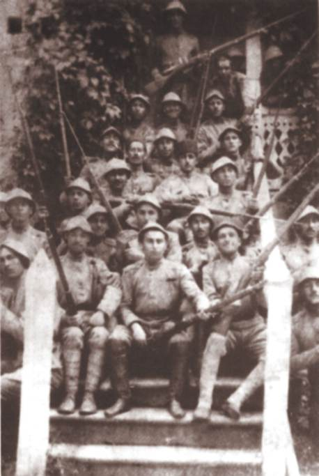 soldiers of the army of ADR (Azerbaijan Demokratic Republic)